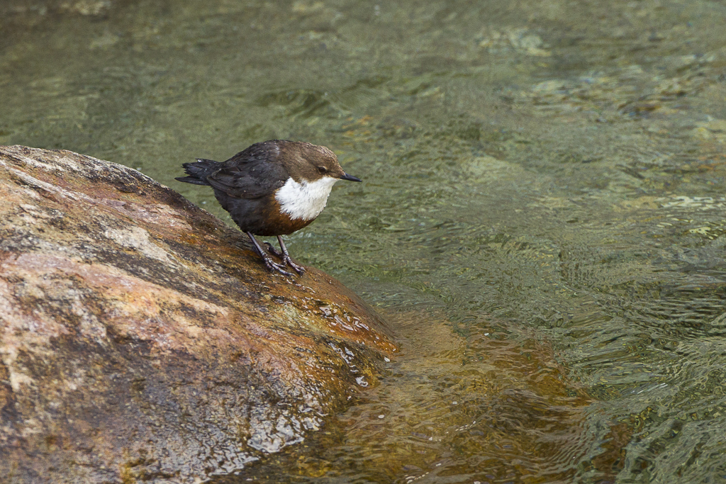 White-throated Dipper - Aosta Valley - Italy_S4E3484